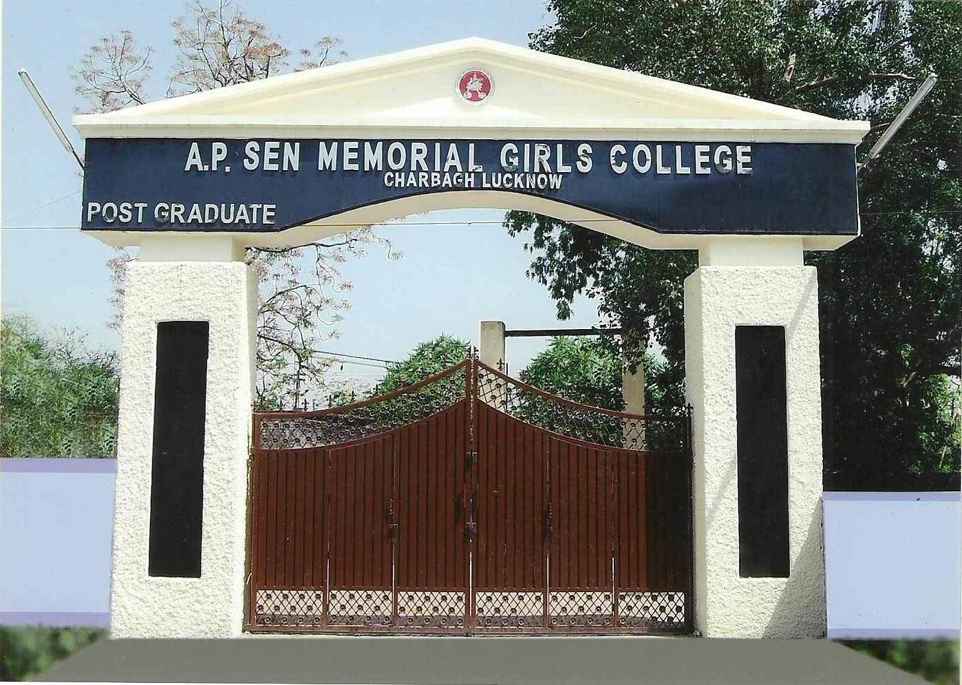 A P Sen Memorial Girls' College Lucknow